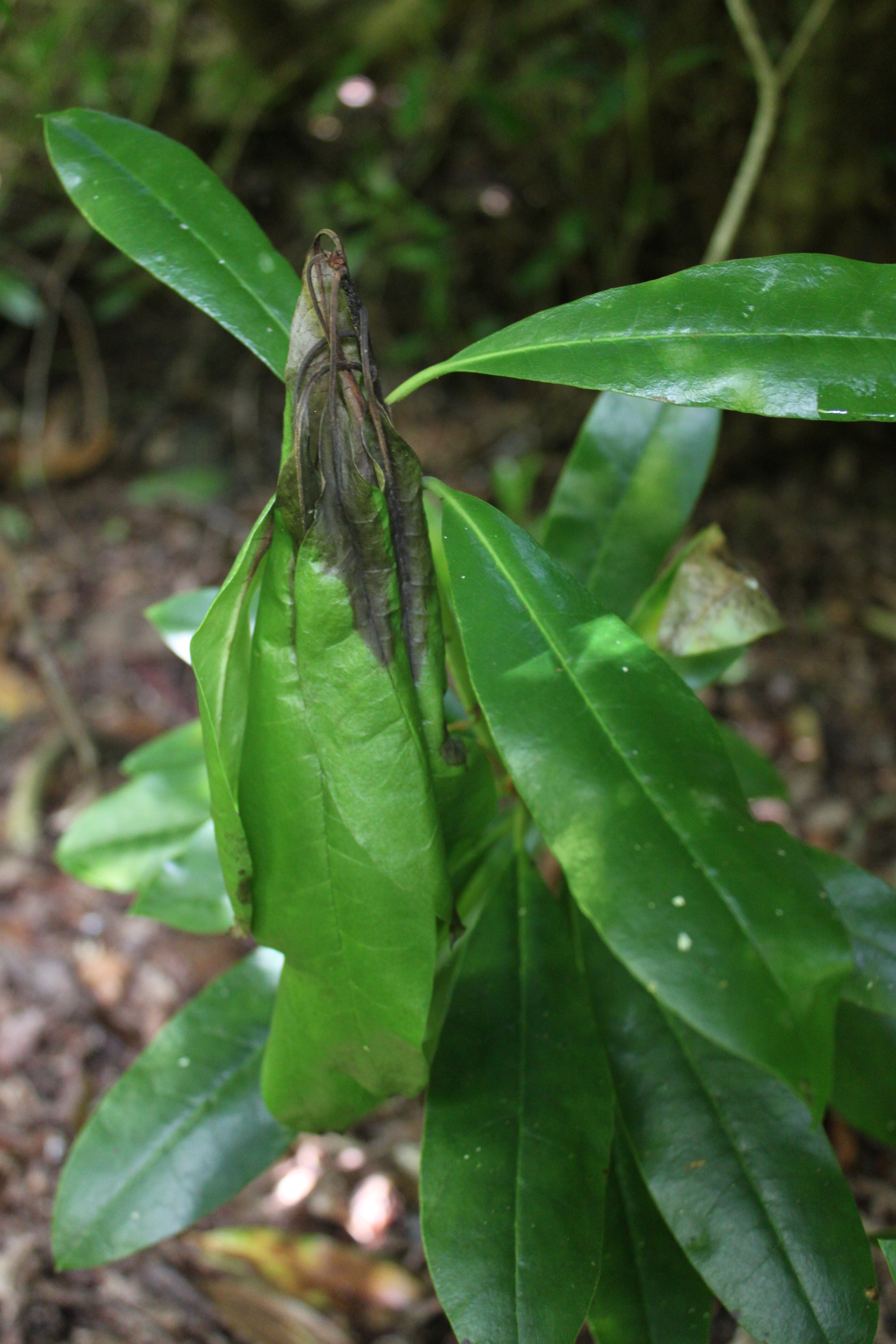 Rhododendron ponticum plant showing classic symptoms of Phytophthora kernoviae infection